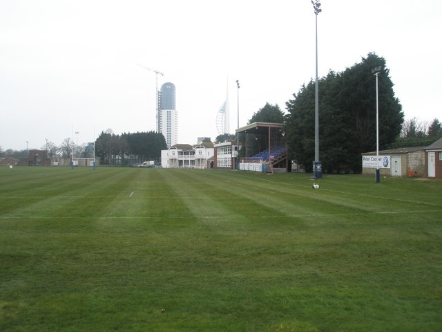 Main stand at US Portsmouth Sports Ground. Located in Burnaby Road, but no longer a county cricket venue.